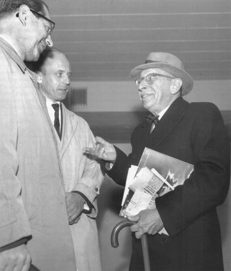 Photograph of the composer Igor Stravinsky visiting Helsinki, Finland, in 1961. From right to left: Stravinsky, Kai Maasalo, Robert Craft. Here they are leaving Finland. Photographed at Seutula airport.